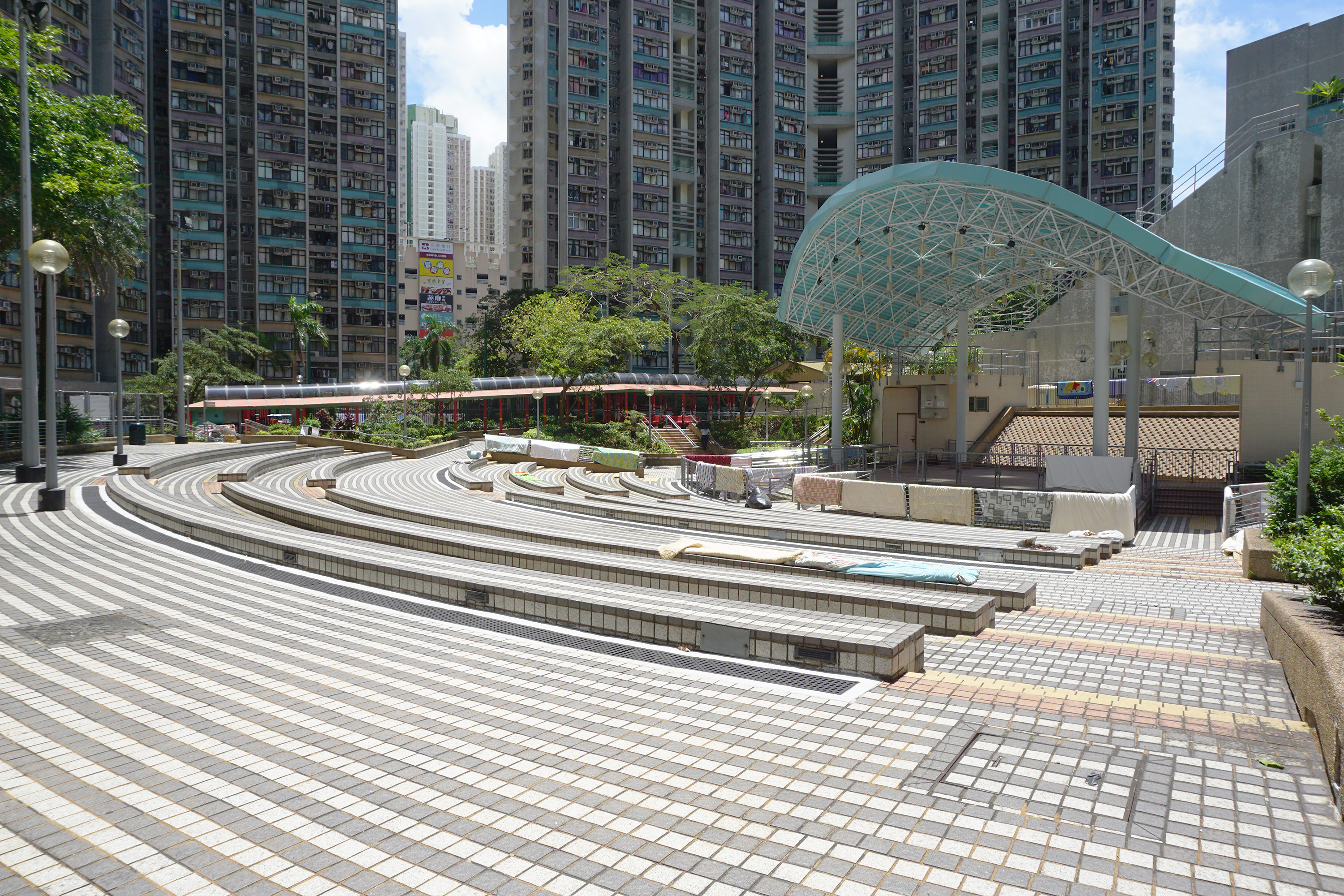 Tin Yiu Estate in Tin Shui Wai, Hong Kong.